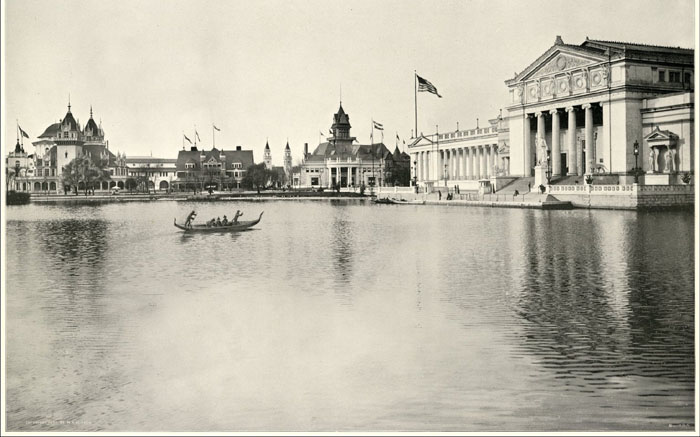 View of North Lagoon, Art Palace and State Buildings. Ohio, Wisconsin, Indiana Large photographic print from The White City (As It Was), photographs by William Henry Jackson. World's Columbian Exposition 1893. Digitial Identifier: GN90799d_JWH_052w World's Columbian Exposition Collection at The Field Museum